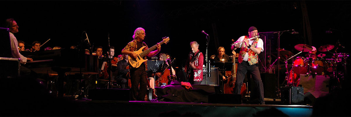 Ian Anderson plays the Orchestral Jethro Tull - at the Hessentag in Butzbach (Germany) on 6. June 2007 - musicians are: in the background the Neue Philharmonie Frankfurt, in the front (f.l.t.r.): John O’Hara (conductor, keyboards and accordion), David Goodier (bass guitar), Martin Barre (e-guitar, accoustic guitars), Ian Anderson (vocals, accoustic guitars, flute), Doane Perry (drums and percussion)